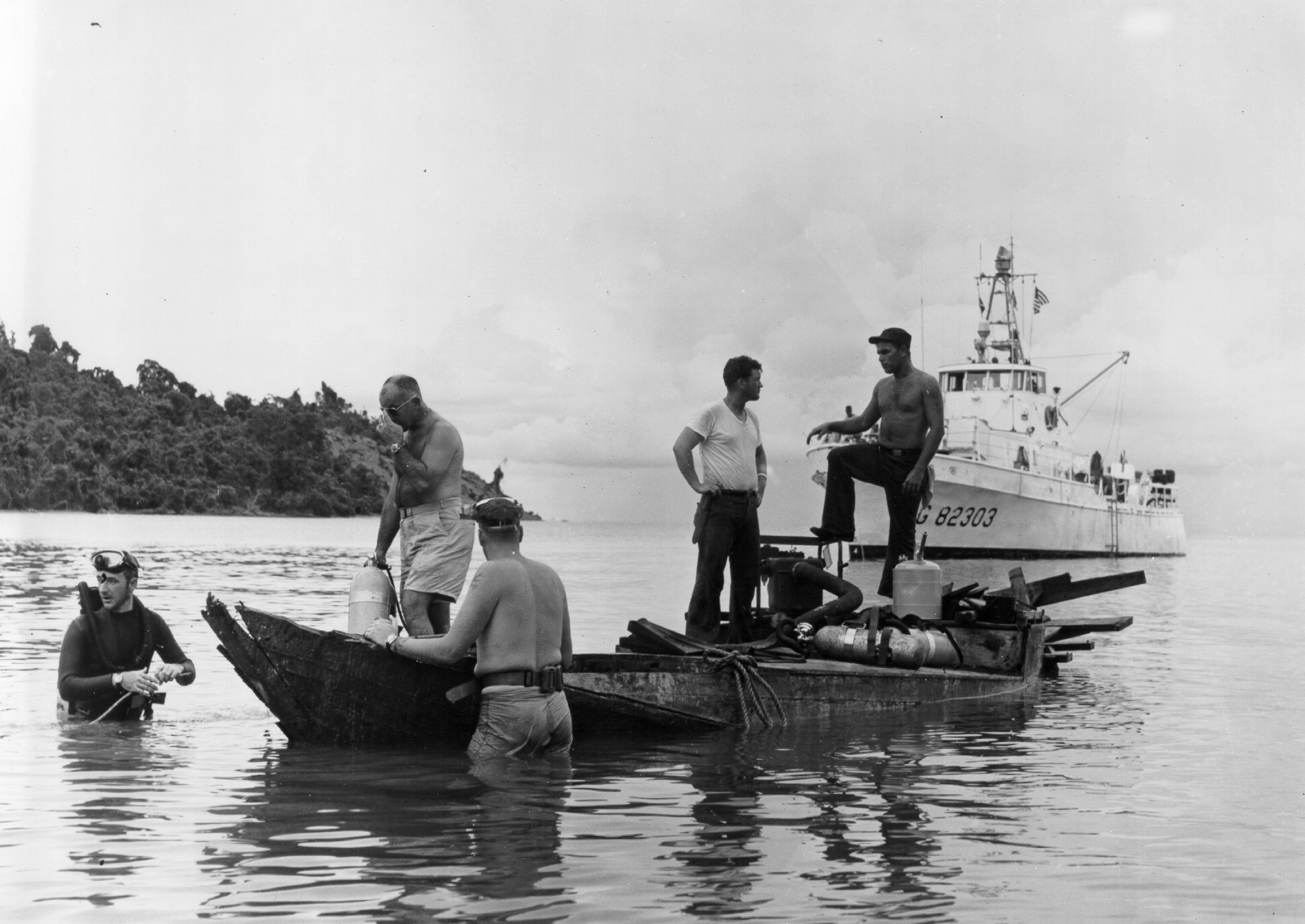 "Release No. 1-66: SALVAGING A VIET CONG JUNK SUNK BY COAST GUARD: At Hon Heo, South Vietnam, U.S. Coast Guard 82-footer POINT YOUNG acts as support vessel for Navy divers and Coast Guard personnel working to raise the first Viet Cong junk that was sunk in the Gulf of Thailand by a Coast Guard 82-footer in September of 1965. The 20-foot junk had attempted to ram the 82-footer USCGC POINT GLOVER, which retaliated with machine gun fire that stopped and sank the junk."